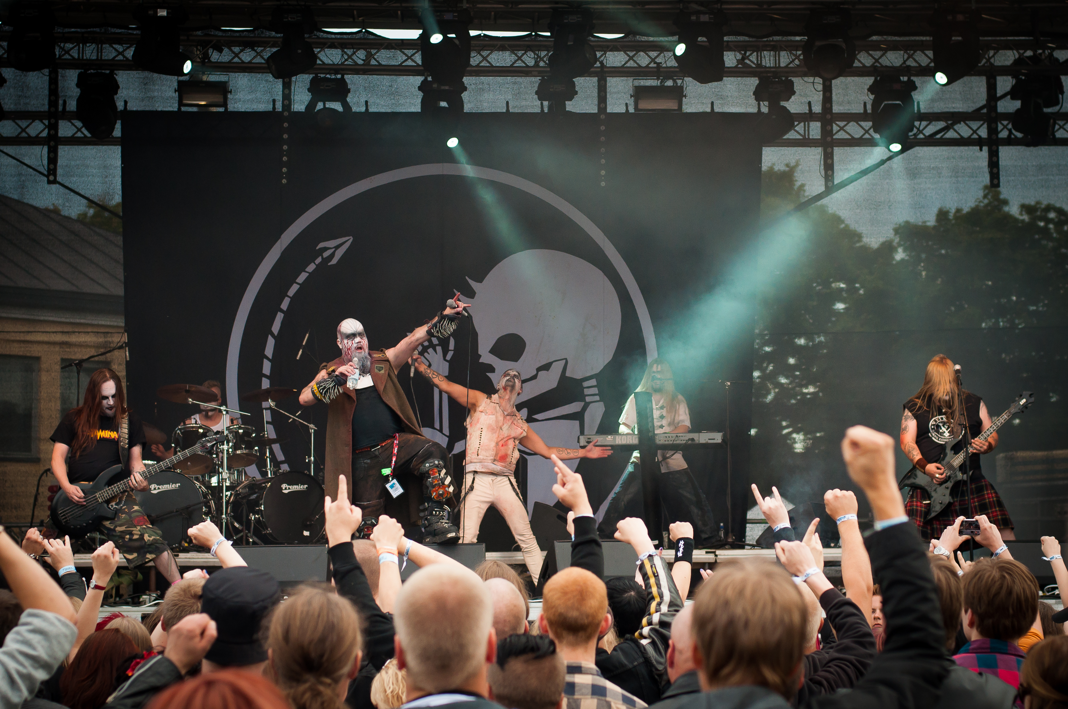 Finnish industrial metal band Turmion Kätilöt performing at Rakuunarock festival in Lappeenranta, Finland.